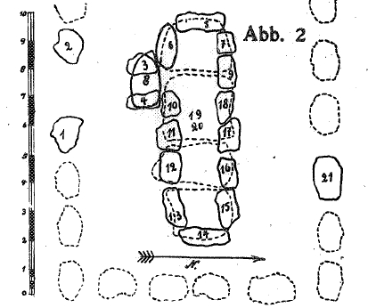 Reconstruction of the Dolmen Lütnitz